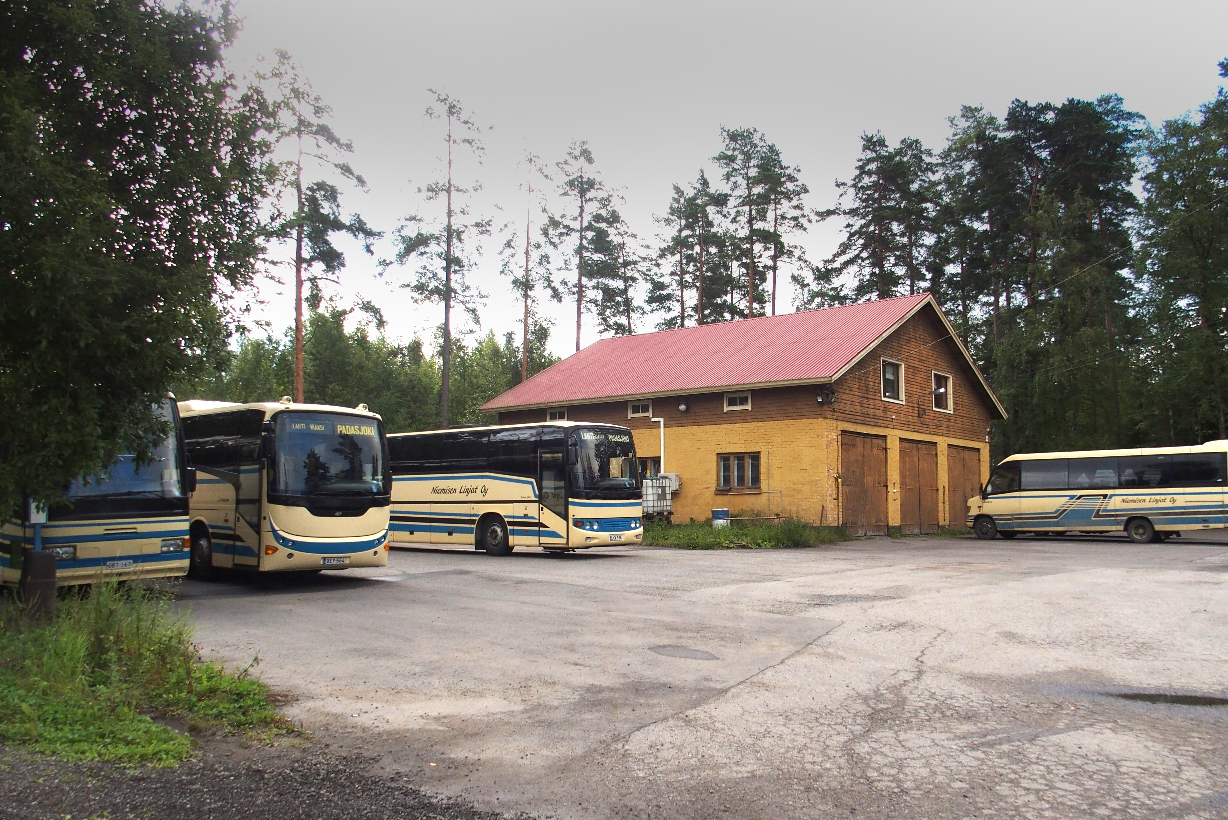 Niemisen Linjat Oy buses in Padasjoki Finland